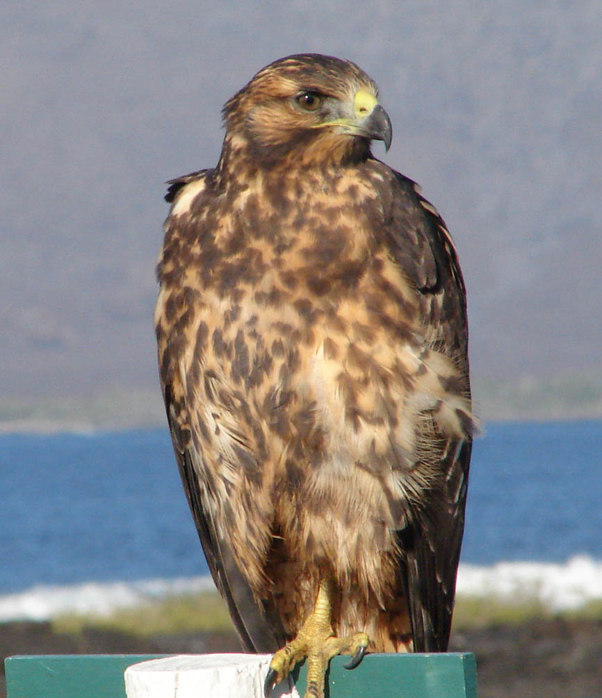 This is a part of a photograph taken by me on the Galapagos Islands of a juvenile Galapagos Hawk (Buteo galapagoensis)